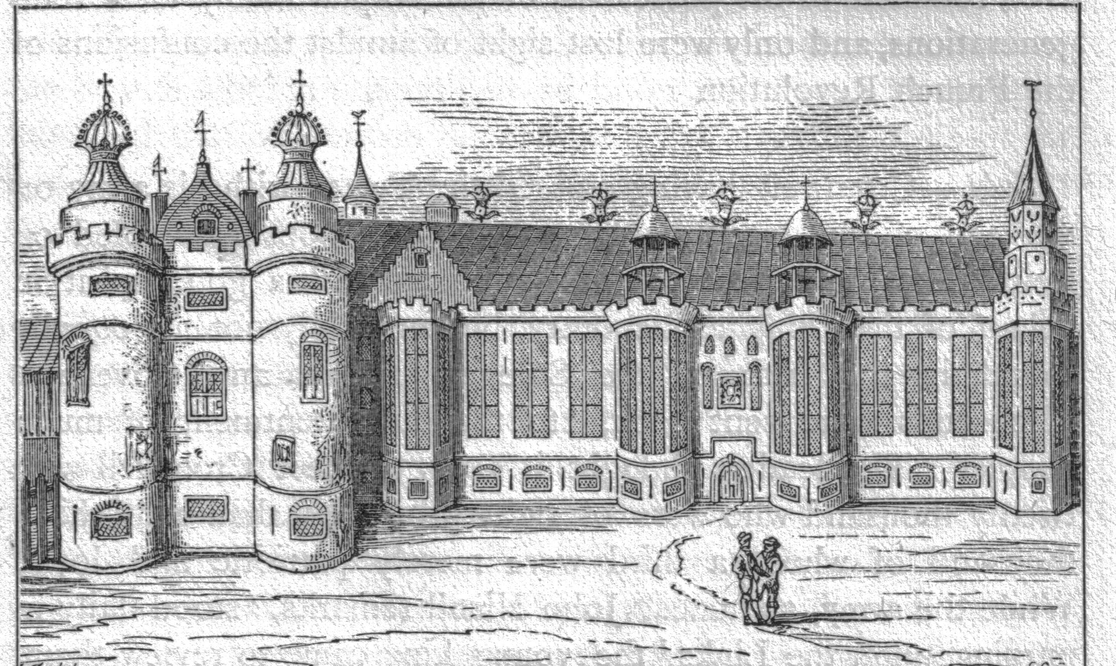 Holyrood House prior to the fire of 1650. Edinburgh. Scotland.